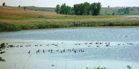 Wetland area with waterfowl at Johnson Lake National Wildlife Refuge, North Dakota, USA